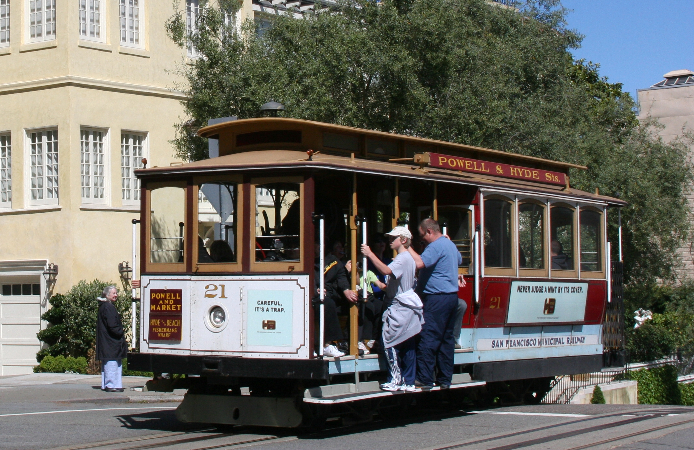 San Francisco cable car at Lombard Street Cropped version of Image:Sfcablecar at lombardst.jpg